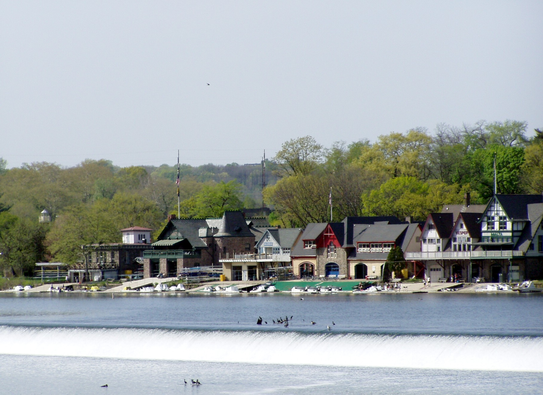 Philadelphia's Boathouse Row as seen from across the Schuylkill River. Picture cropped and upped contrast.